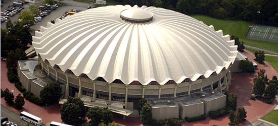 The Coliseum at WVU is the home of the men and women's basketball teams as well as the women's valleyball team.